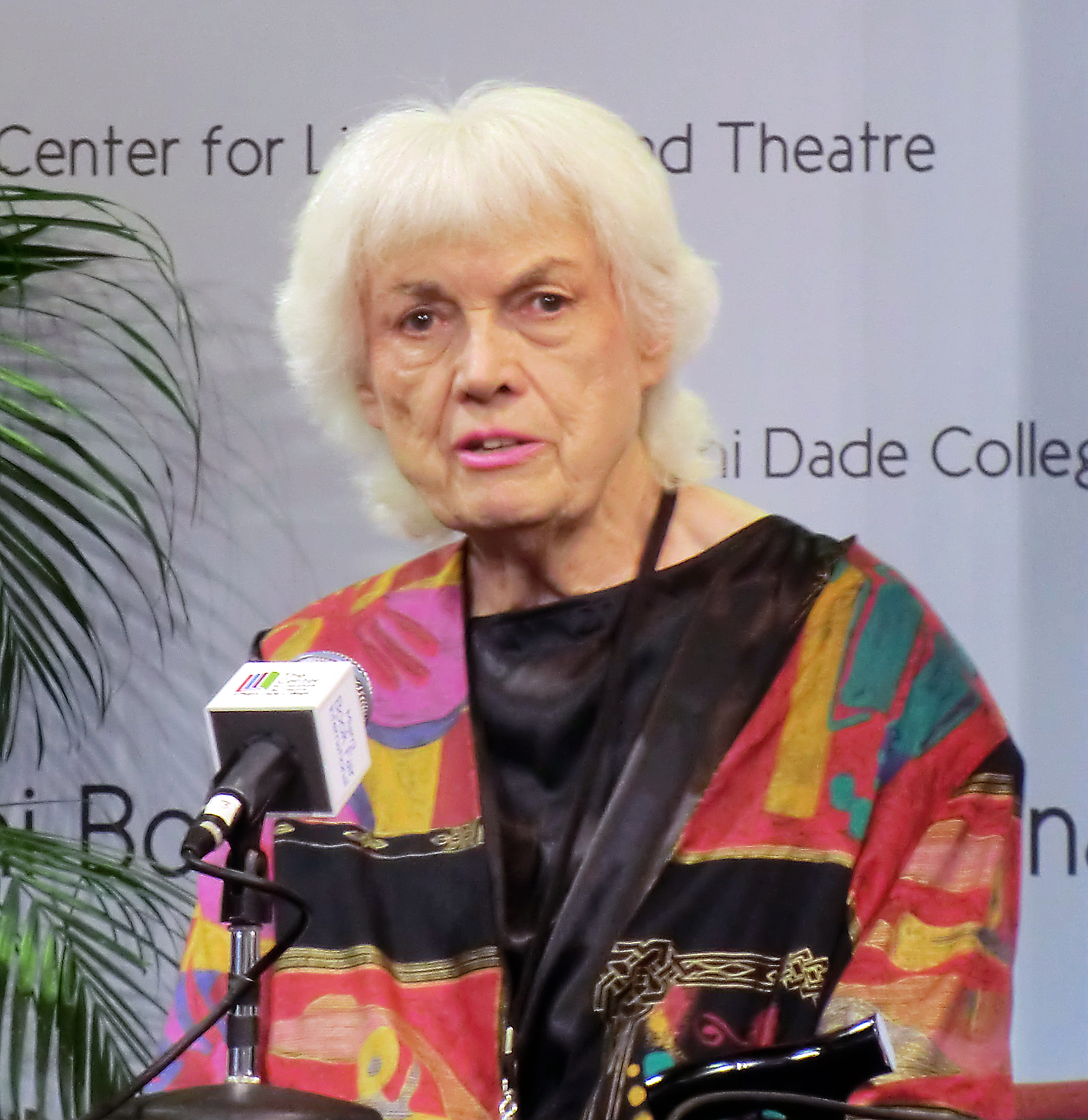 Bunny Yeager, American photographer and former pin-up model. Miami Book Fair International 2012.